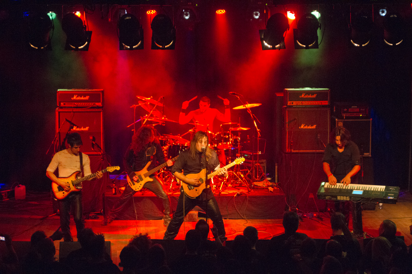 Borealis playing at progpower 2012, shows their most recent lineup.